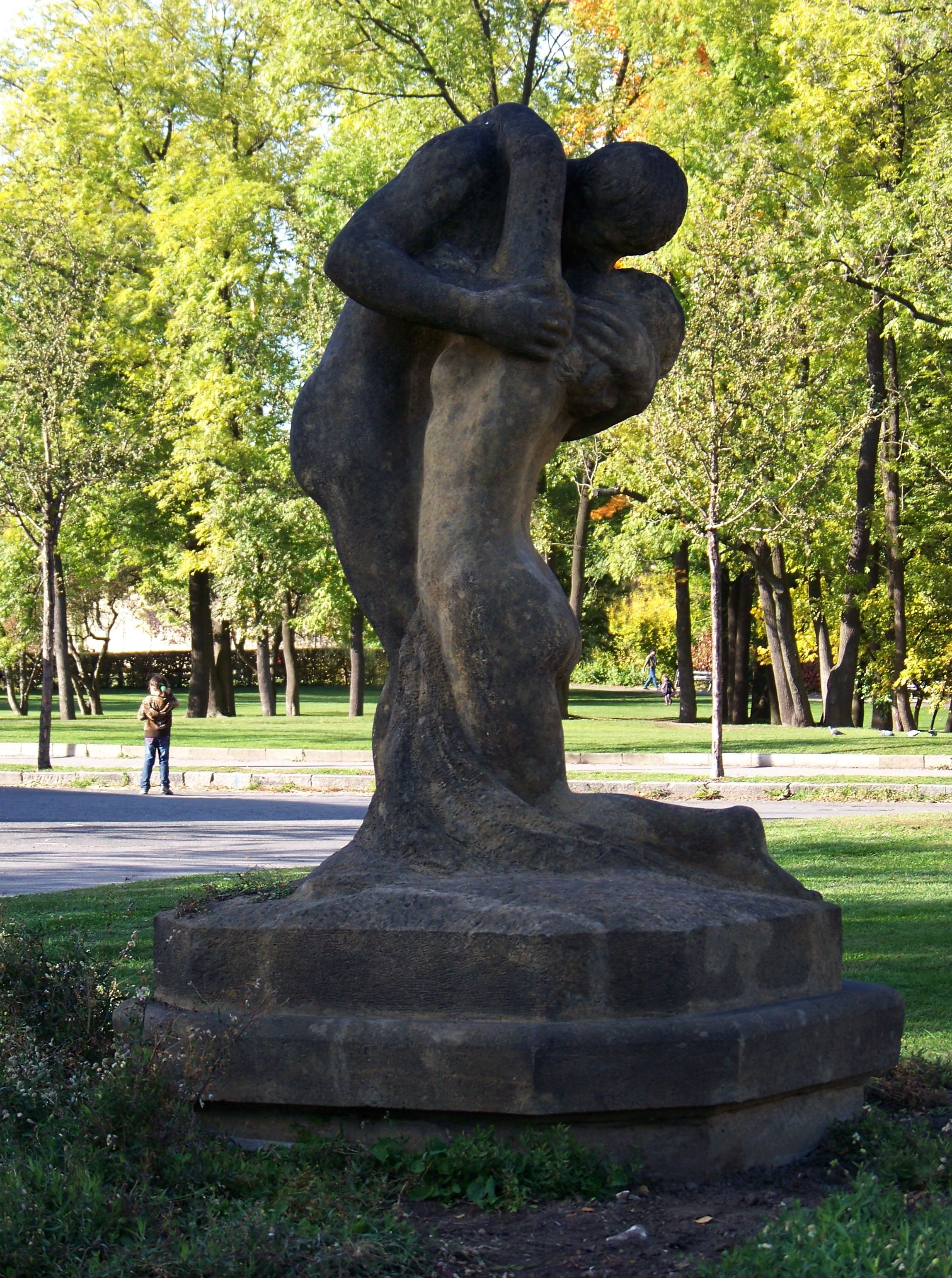 Prague-Hradčany, the Czech Republic. Petřín Hill, Rose Garden, a statue.